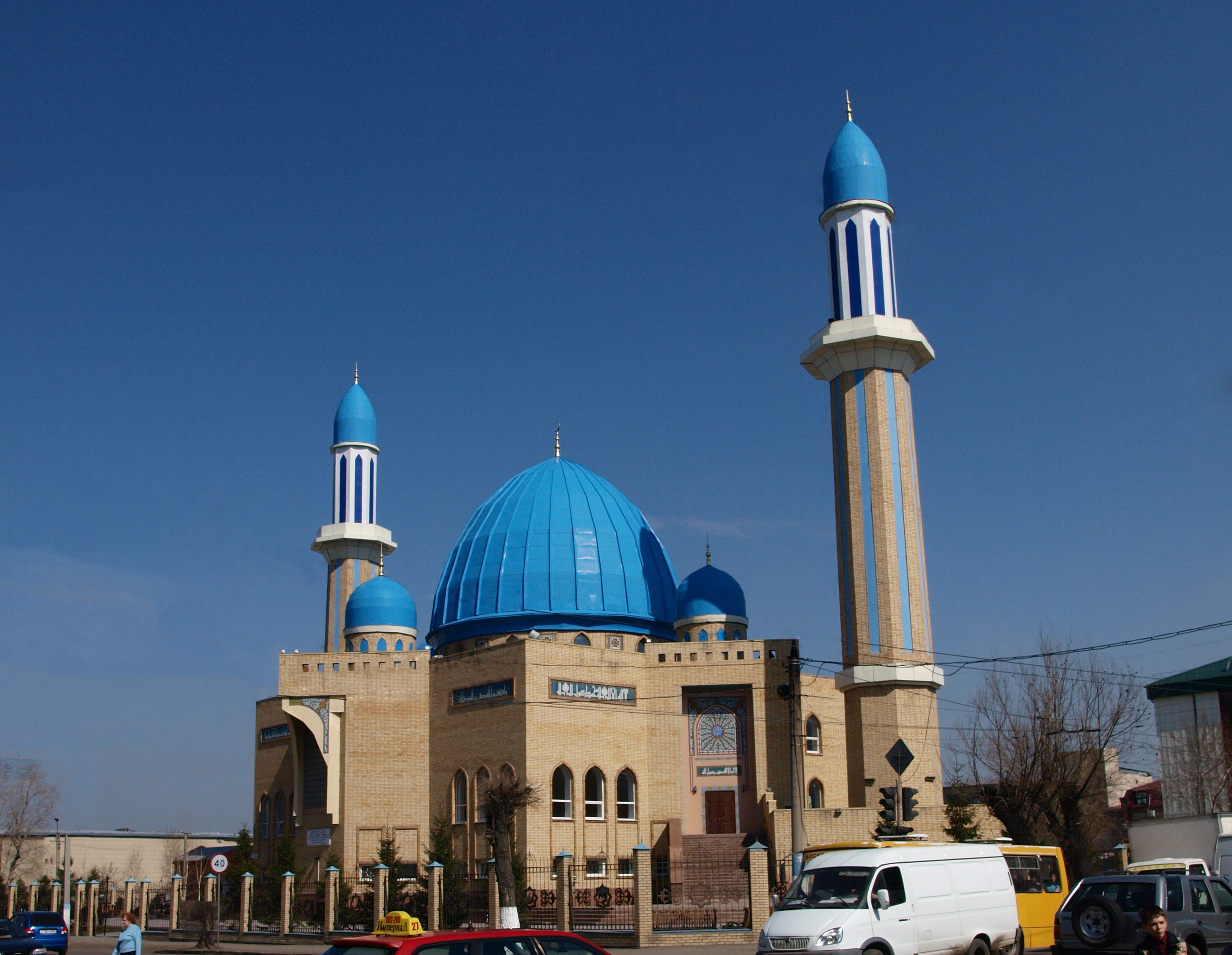 Mosque in Petropavlovsk, Kazakhstan.